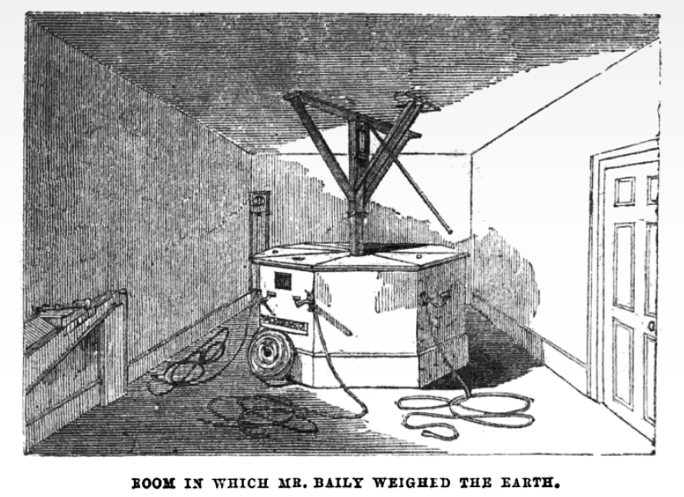 This engraving is of the room where in 1838 Francis Baily measured the density and weight of the Earth. The mean density of Earth was found to be 5.67 times the density of water, and the weight of the Earth was calculated to be 6,049,836 billion tons (give or take).